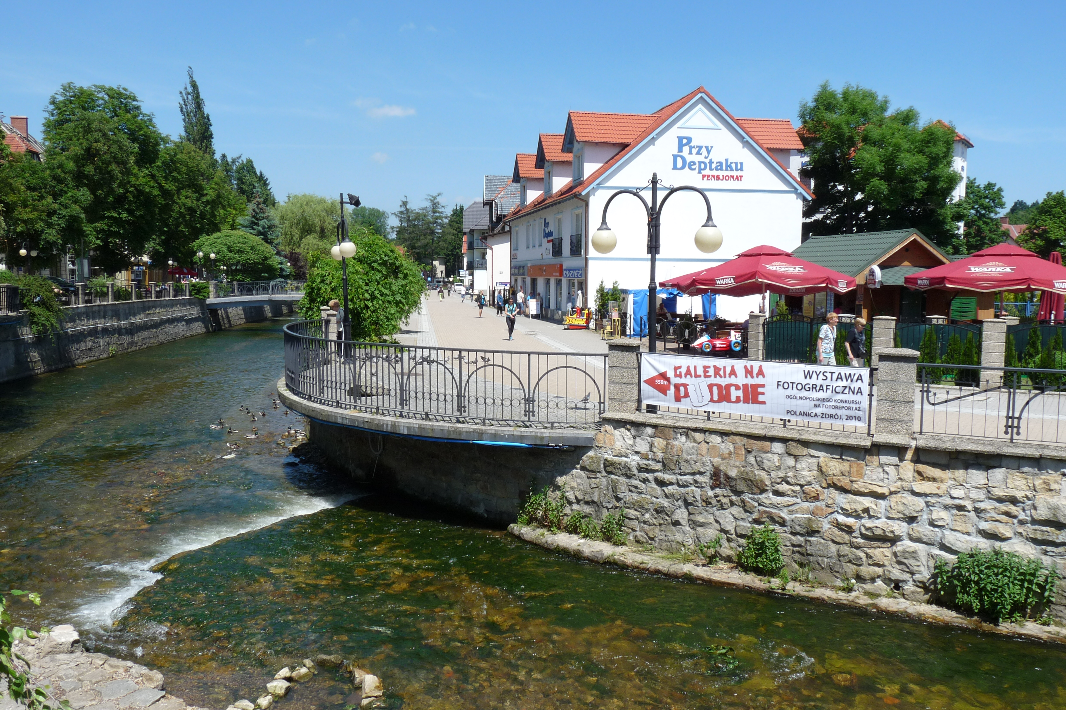 Polanica-Zdrój